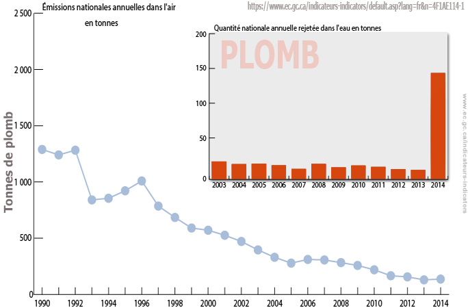 Effects of Mount Polley mine dam failure : On August 4, 2014, in central British Columbia, a dam of a tailings pond from the "Mount Polley mine" breached, spilling mining waste (polluted with lead and other toxic metals) into Polley Lake and surrounding waters. That breach alone released 134 t of Pb to water : 92% of the total reported for all the Canada in 2014.